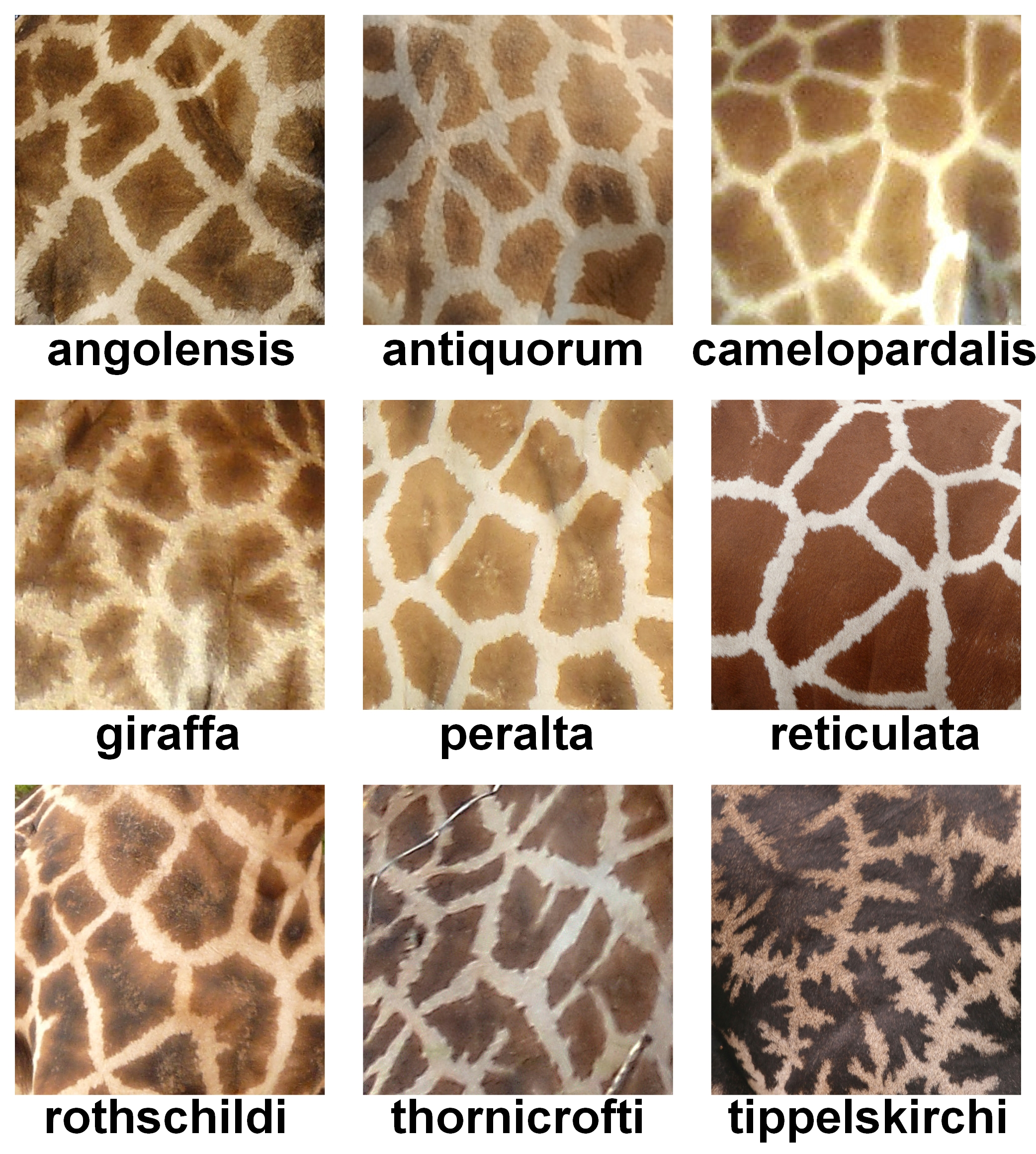 The fur pattern of all nine Giraffa camelopardalis subspecies